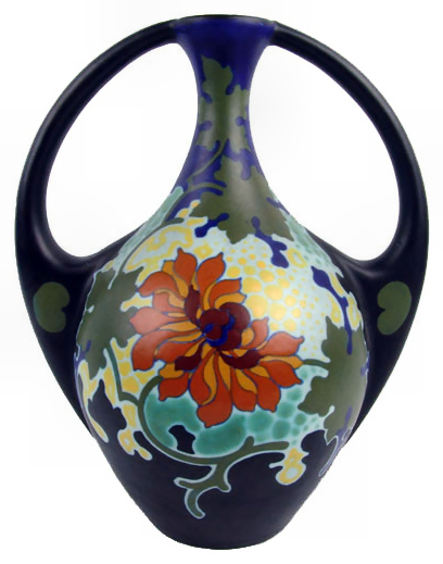 My photo of a vase in my "Gouda" pottery collection.